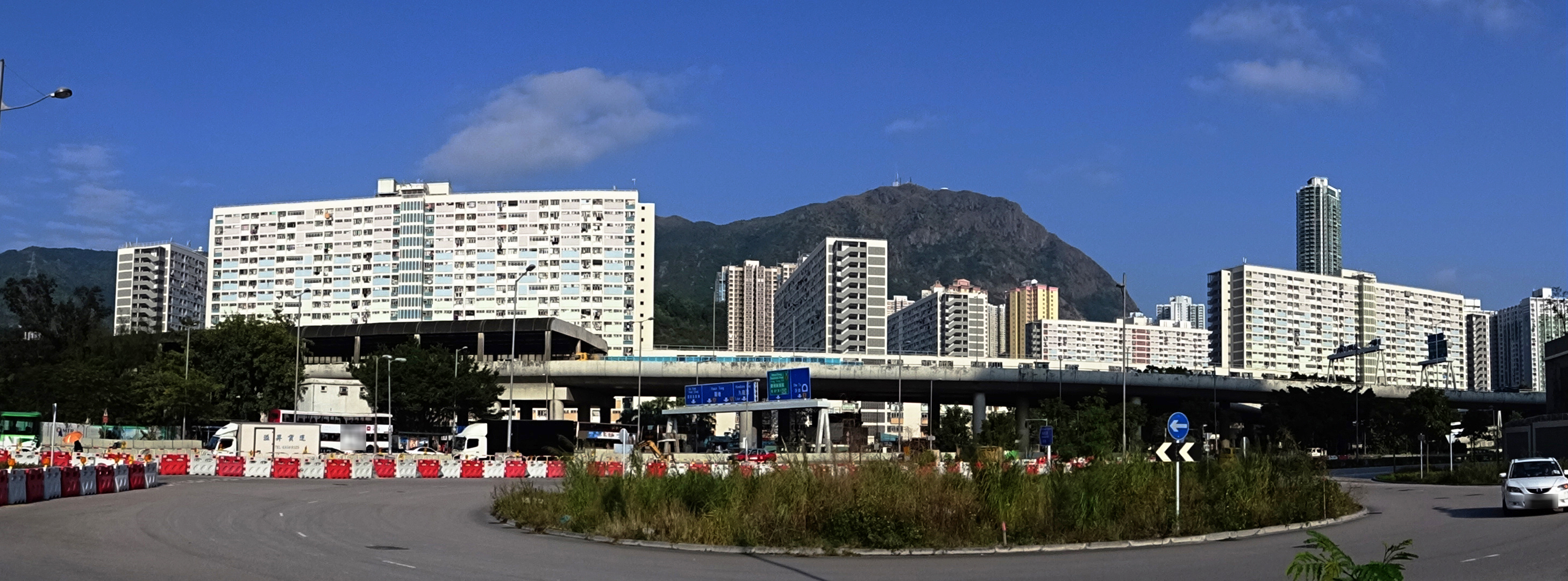 Choi Hung Estate in Ngau Chi Wan, Hong Kong.